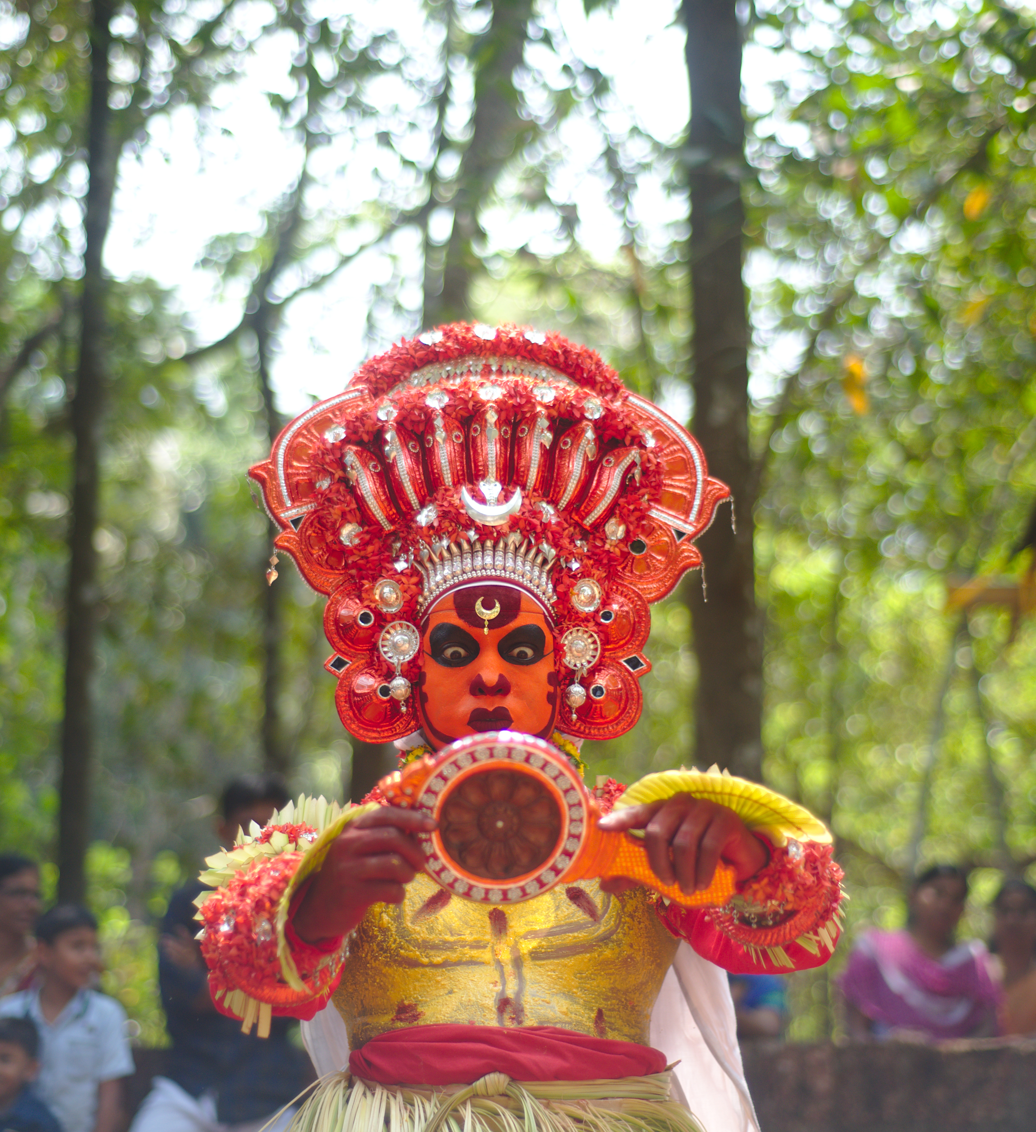 Kundora Chamundi is a theyyam performed in north kerala